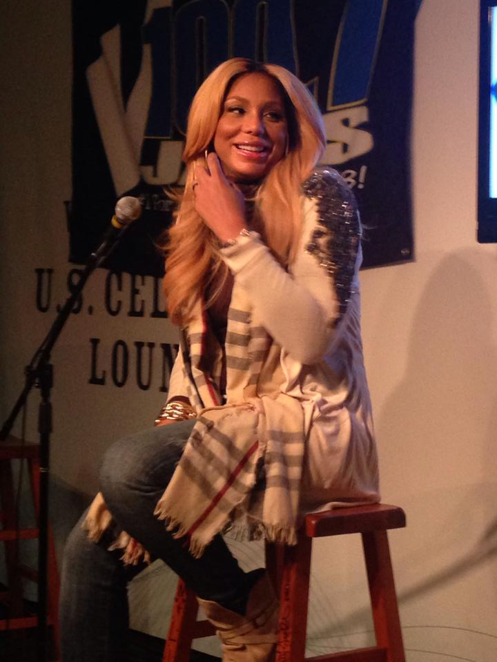 Tamar Meet & Greet V-100